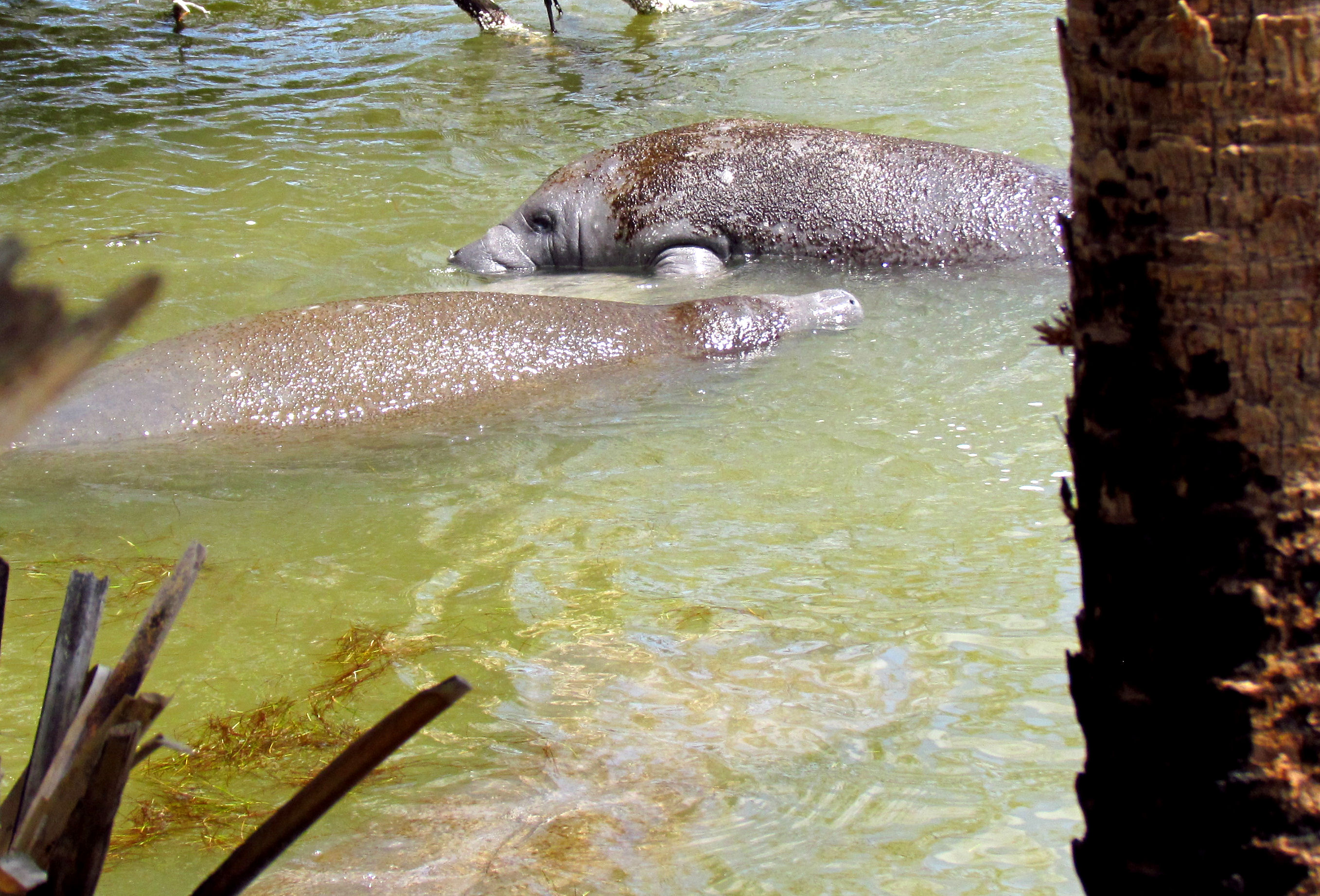 Florida Manatees (Trichechus manatus latirostris) at Haulover Canal, Merritt Island National Wildlife Refuge, Florida, USA